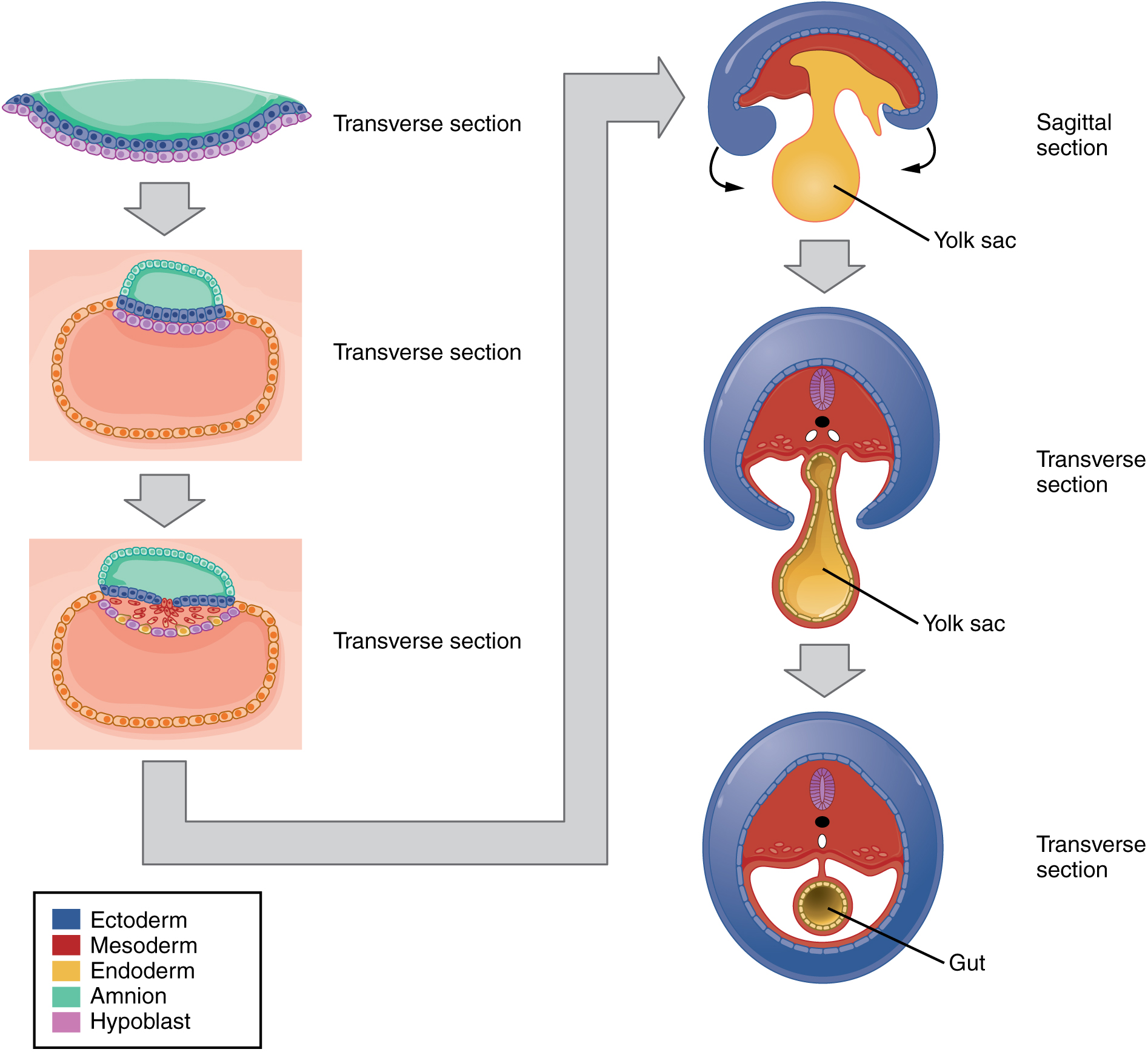 Illustration from Anatomy & Physiology, Connexions Web site. Jun 19, 2013.